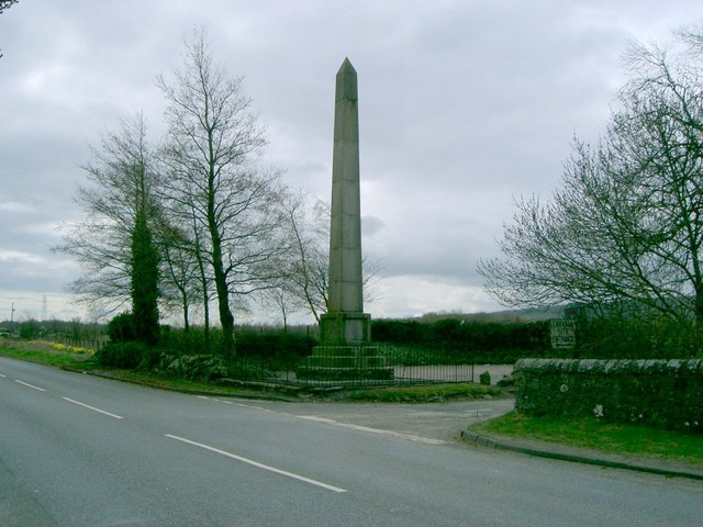 Monument Situated in Gairneybridge this monument was erected in 1883 to commemorate the founding of the Secession Church in a cottage near here in 1773.